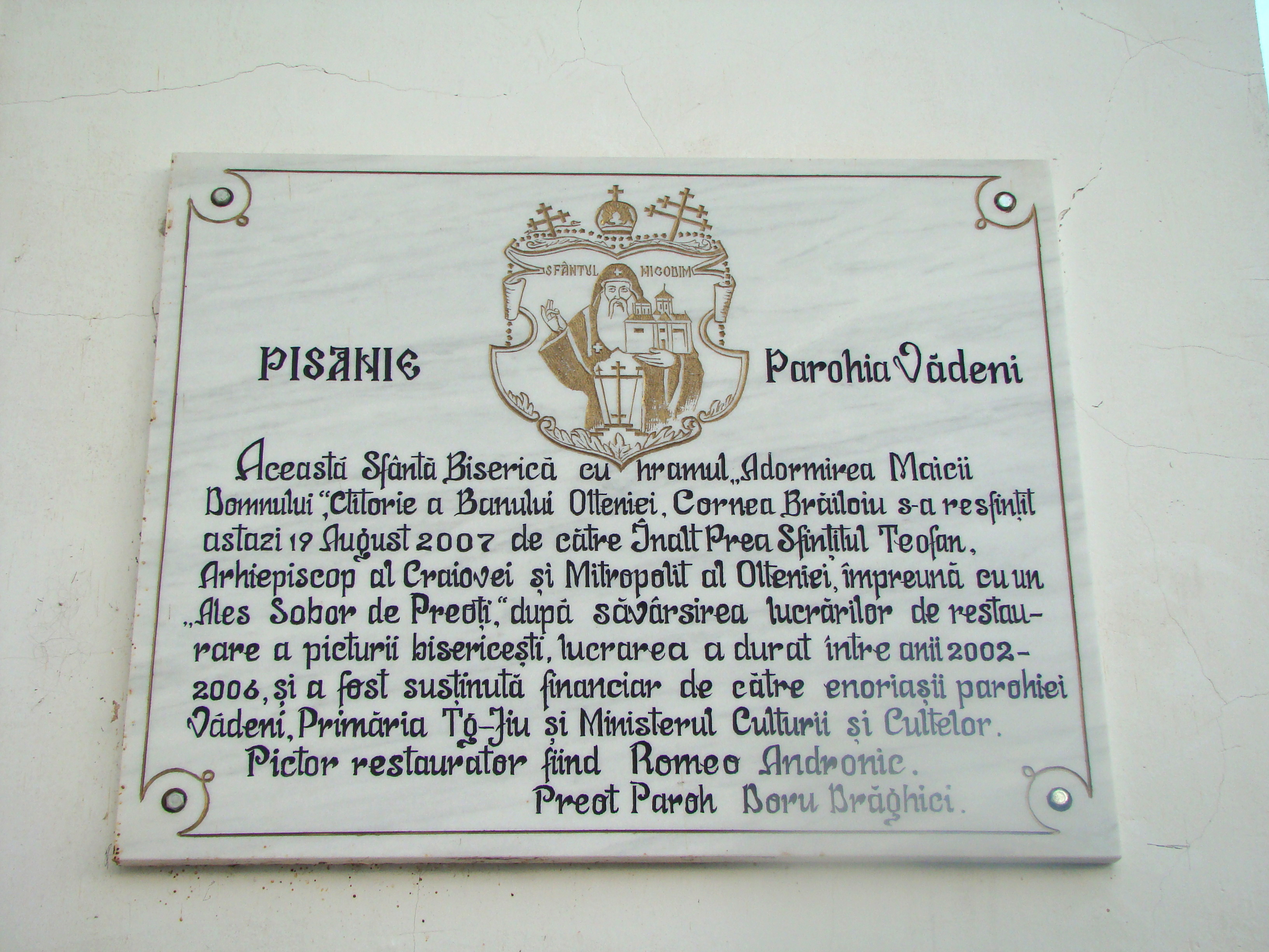 Church of the Dormition in Târgu Jiu, Gorj county, Romania